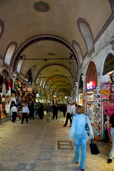 Author: David Bjorgen URL